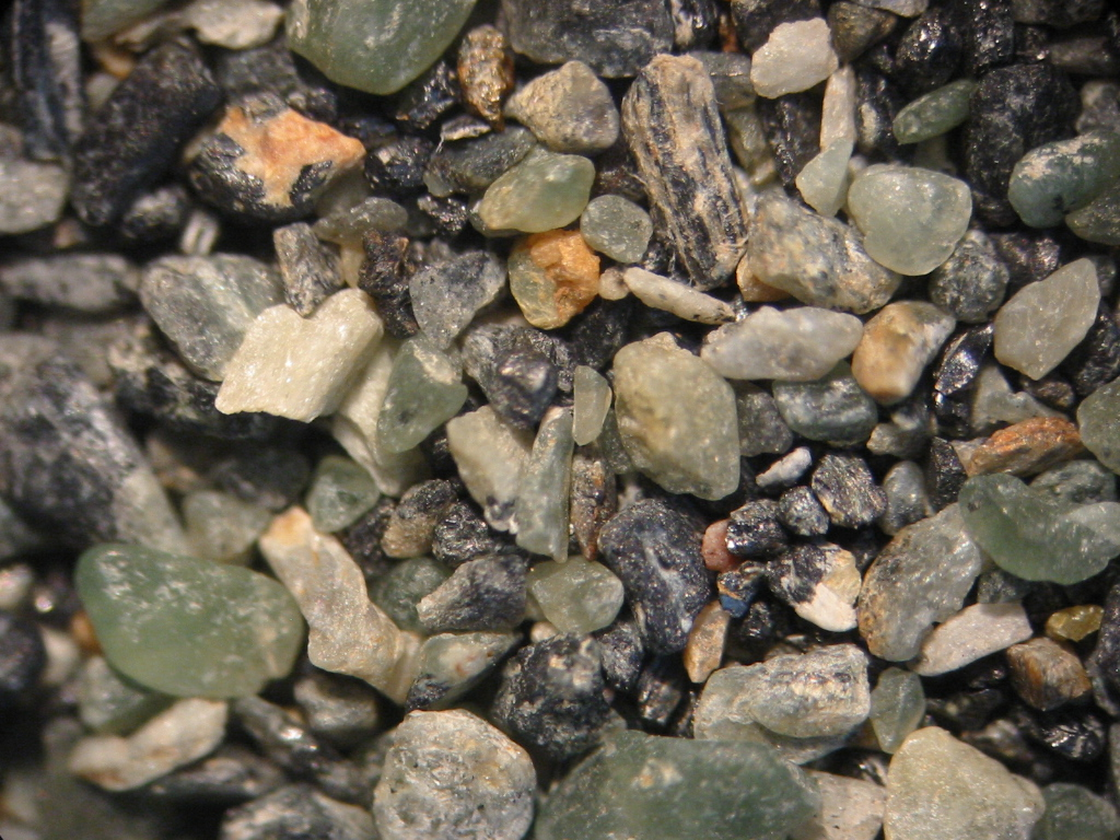 Sand with olivine grains from Marine d'Albo, Corsica, France. Made with Canon A40 PowerShot digital camera and Novex AP8 microscope, by Renée Janssen. Magnification: The grains are about 0.5 to 2 mm in size.